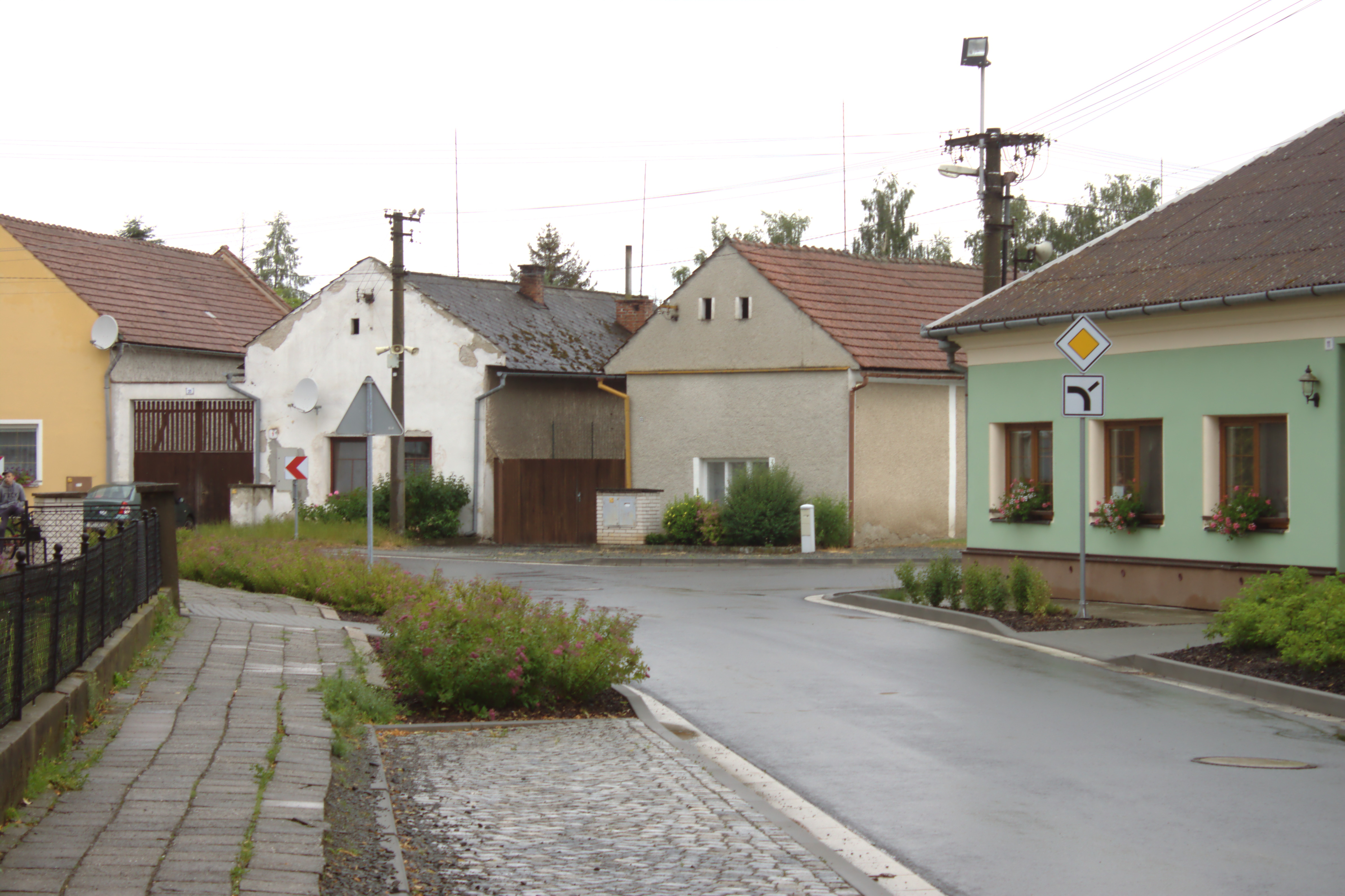 Buildings in the village of Pňovice, Olomoucký kraj